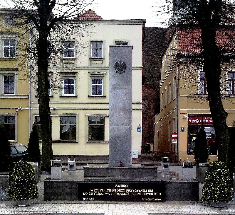 Monument of "Gratitude" in Gryfice (Poland)